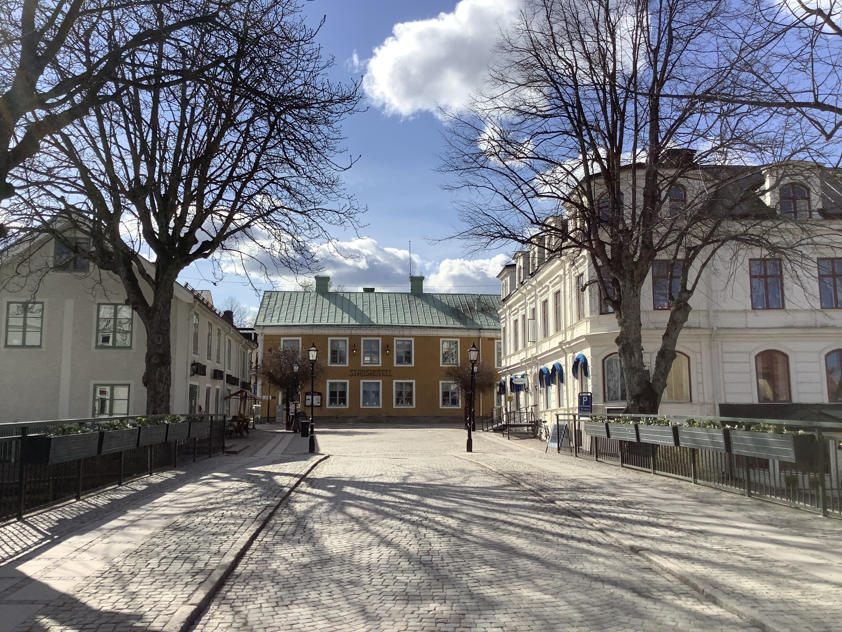 Trosa stadshotell, Trosa City Hotel, seen from Trosa torg and Torgbron